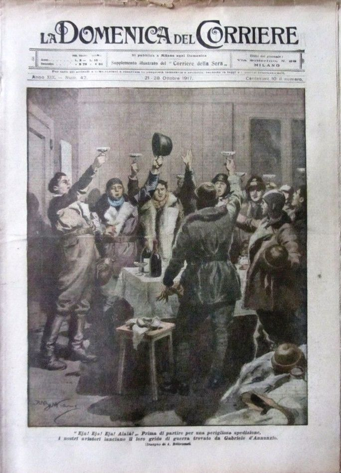 The Italian aviation corps shout the warcry Eja! Eja! Alala in October 1917